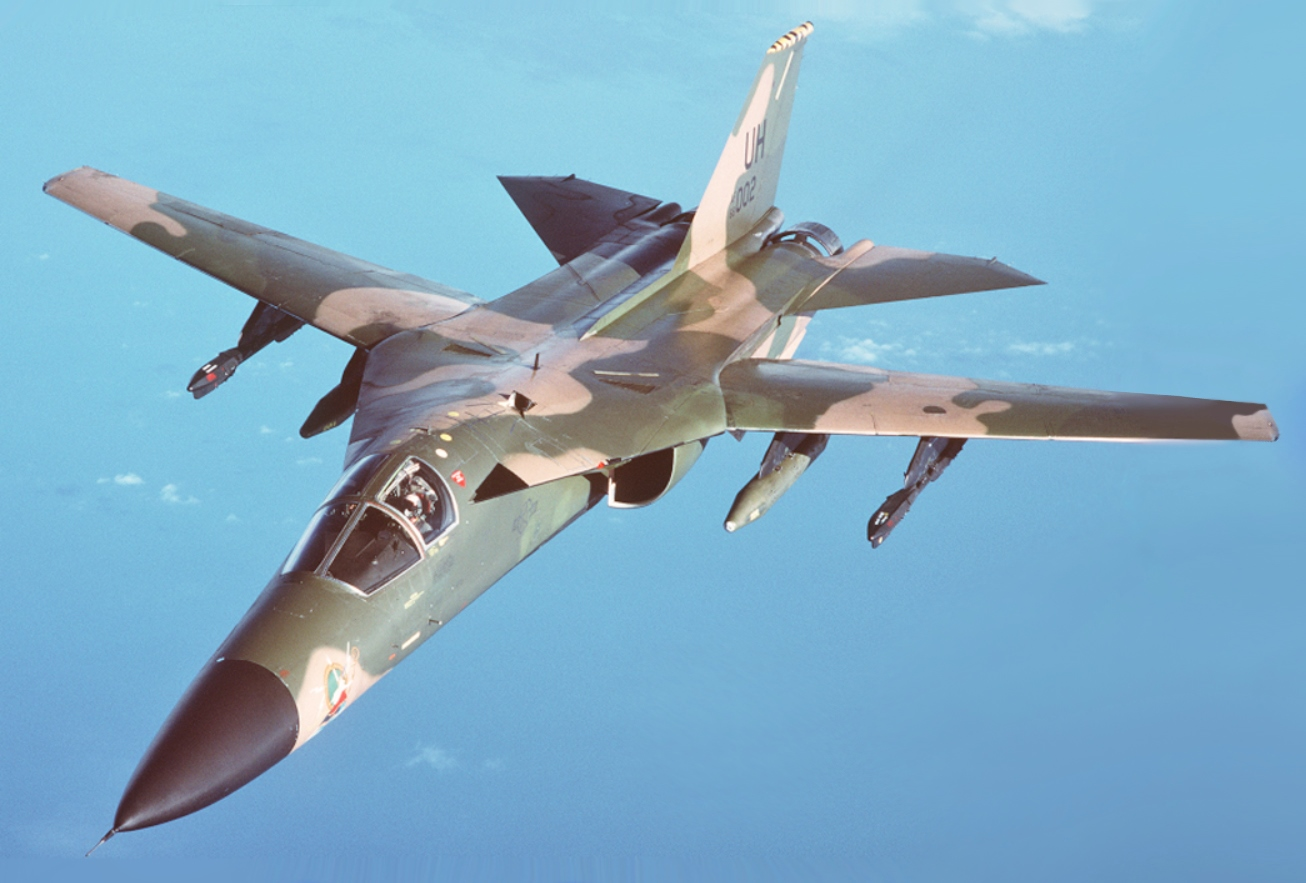 An air-to-air left front view of an F-111 aircraft during a refueling mission over the North Sea